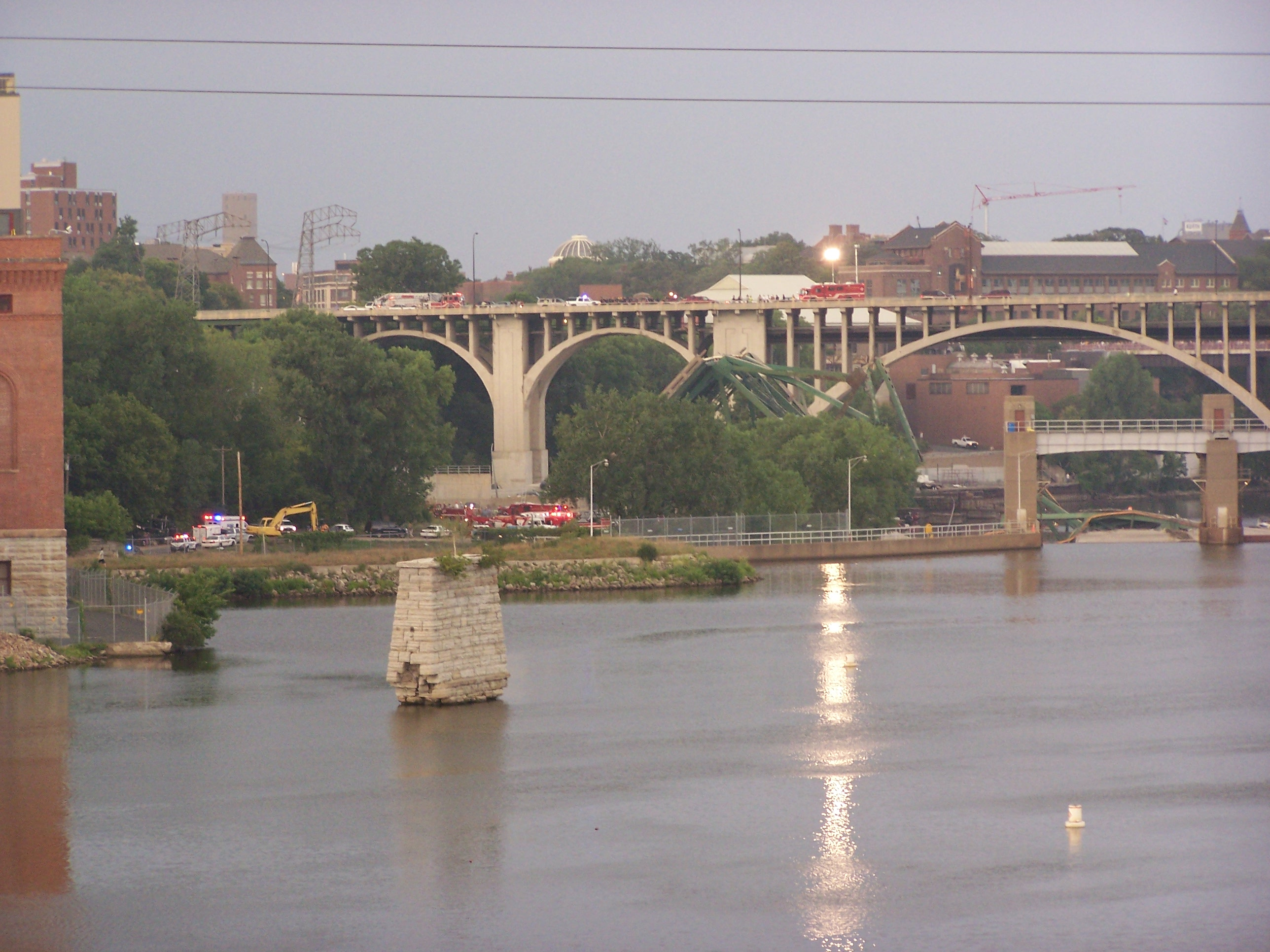 Green girders from collapsed I-35W bridge jut up from Mississippi River, August 1, 2007. View is from Stone Arch Bridge across lower St. Anthony Falls dam, with 10th Street bridge in background.